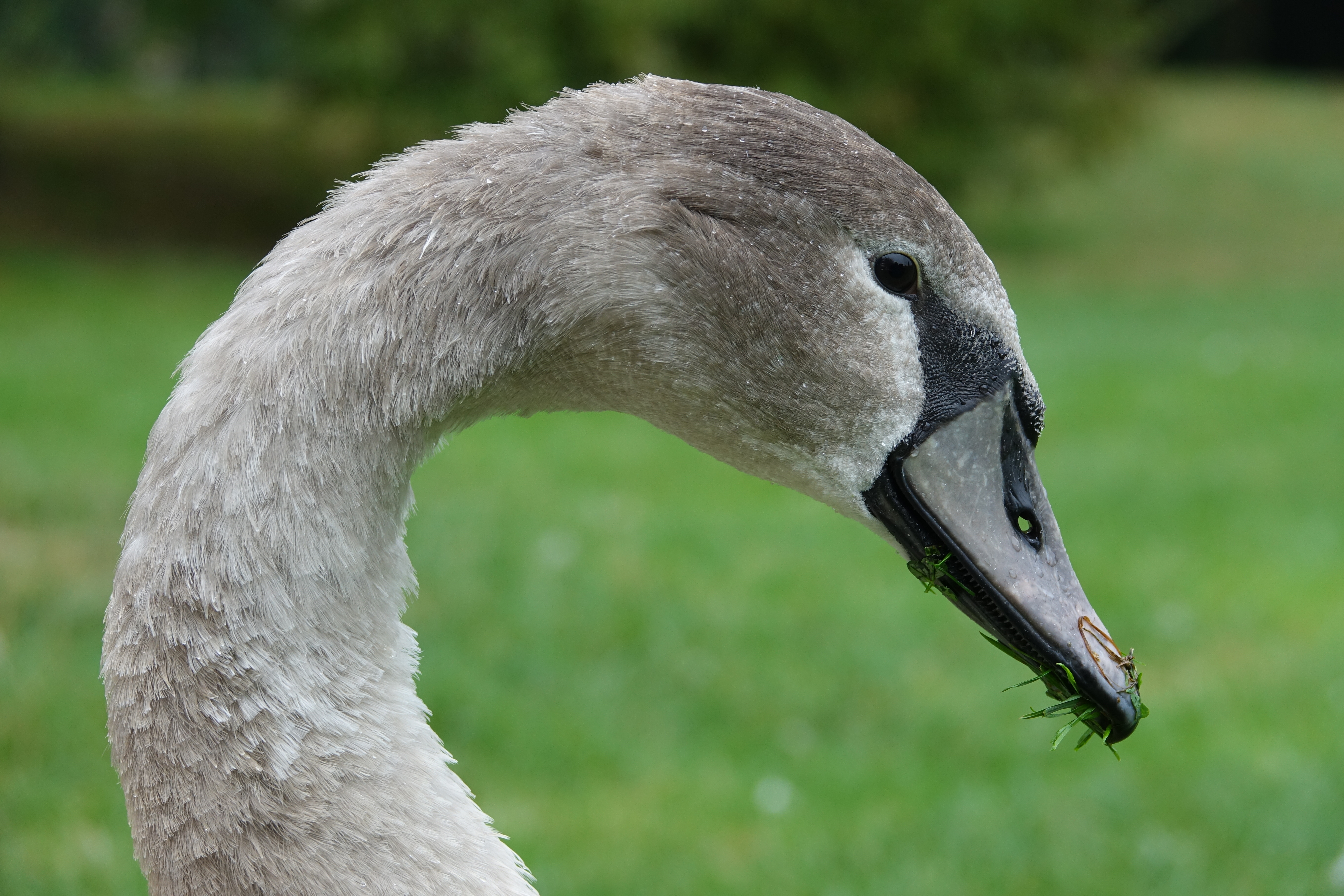 Head of a juvenile mute swan (Cygnus olor) in Colmar (Haut-Rhin, France).